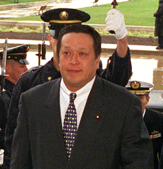 Yasukazu Hamada, Parliamentary Vice Minister of Defense, met John Hamre, Deputy Secretary of Defense, at the Pentagon in Arlington County, Virginia State on November 3, 1998.